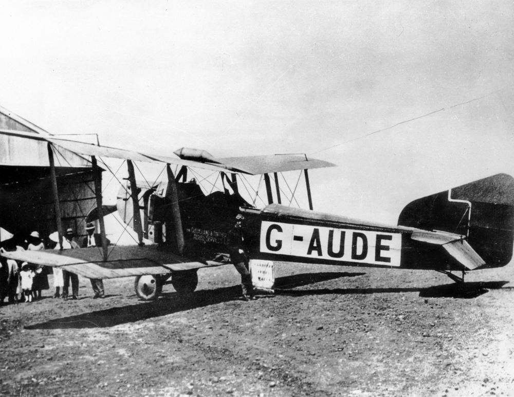 QANTAS aircraft, the Armstrong Whitworth FK8, ca. 1922 This aircraft was one of the original QANTAS airmail fleet in 1922. The plane was used for the first regular QANTAS service between Charleville and Cloncurry. It was a surplus World War I plane. G-AUDE. (Description supplied with photograph).